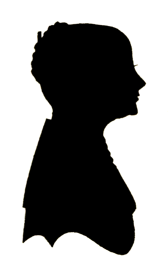 Mrs. Angeline Lorraine Tenney Castle (October 25, 1810 – March 5, 1841) first wife of missionary to Hawaii Samuel Northrup Castle.